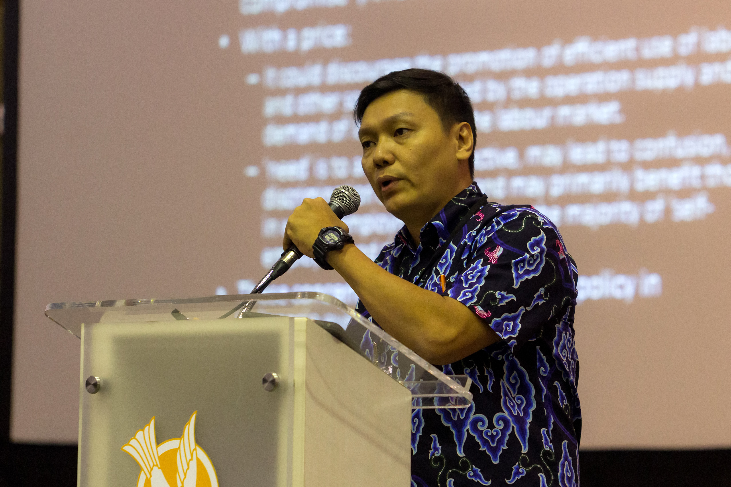 Surya Tjandra, a professor and former candidate for the Indonesian Corruption Eradication Commission, speaking at the 9th International Indonesia Forum, held on 23-24 August 2016 at Atma Jaya Catholic University, Jakarta